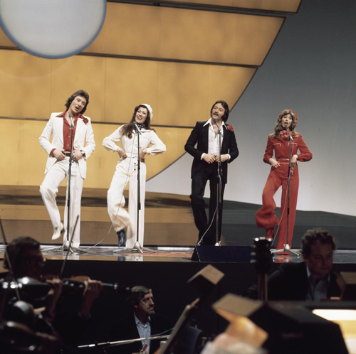 Brotherhood of Man at a rehearsal for the Eurovision Song Contest 1976.